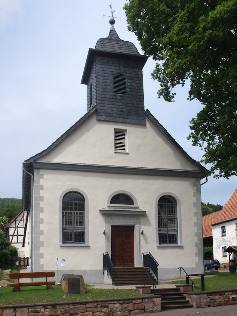 Gottstreu (Oberweser), Hessen ,Germany, church , photo 2012